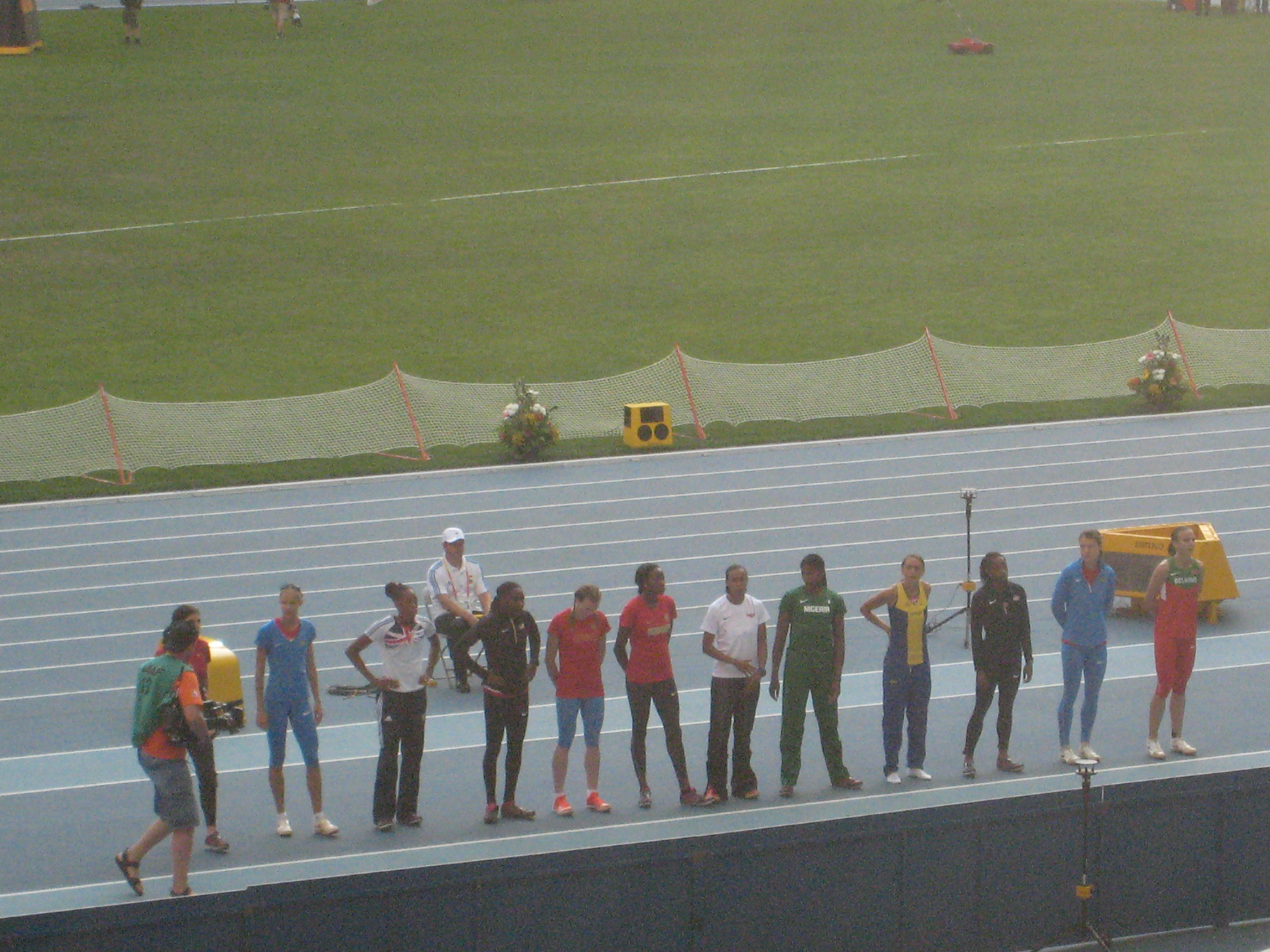 2013 IAAF World Champiomships in Moscow. Long Jump. Women. Final.